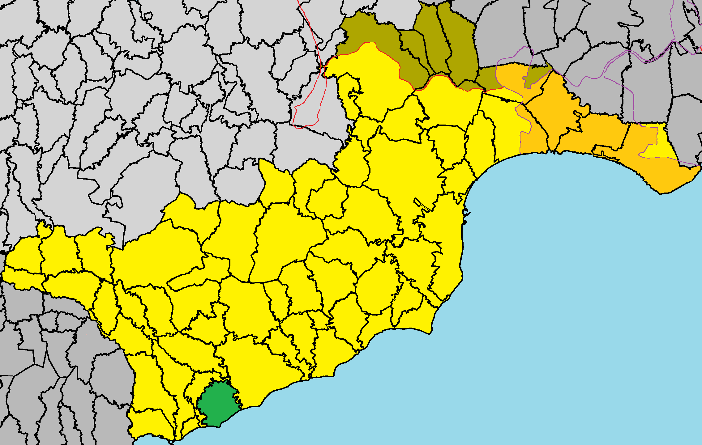 Maroni in Larnaca District.